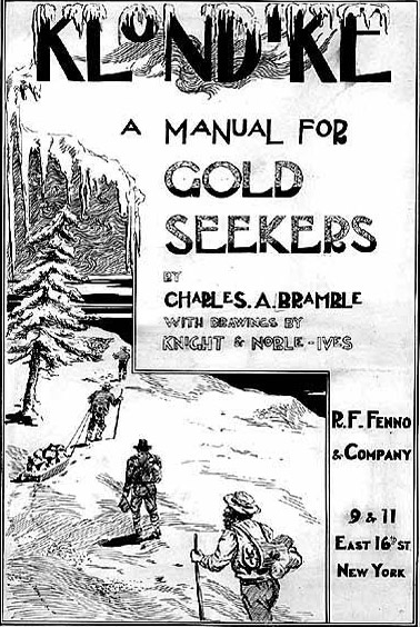 Cover for Klondike: a manual for goldseekers by Charles A Bramble (1897) [1]